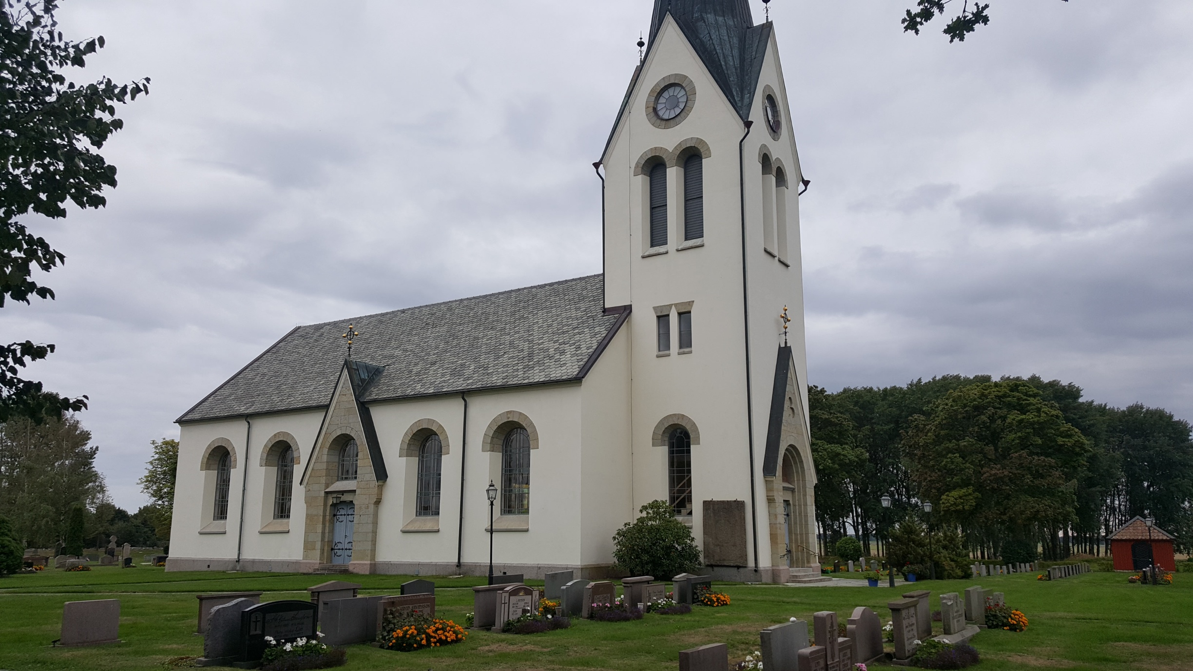 Hasslösa church